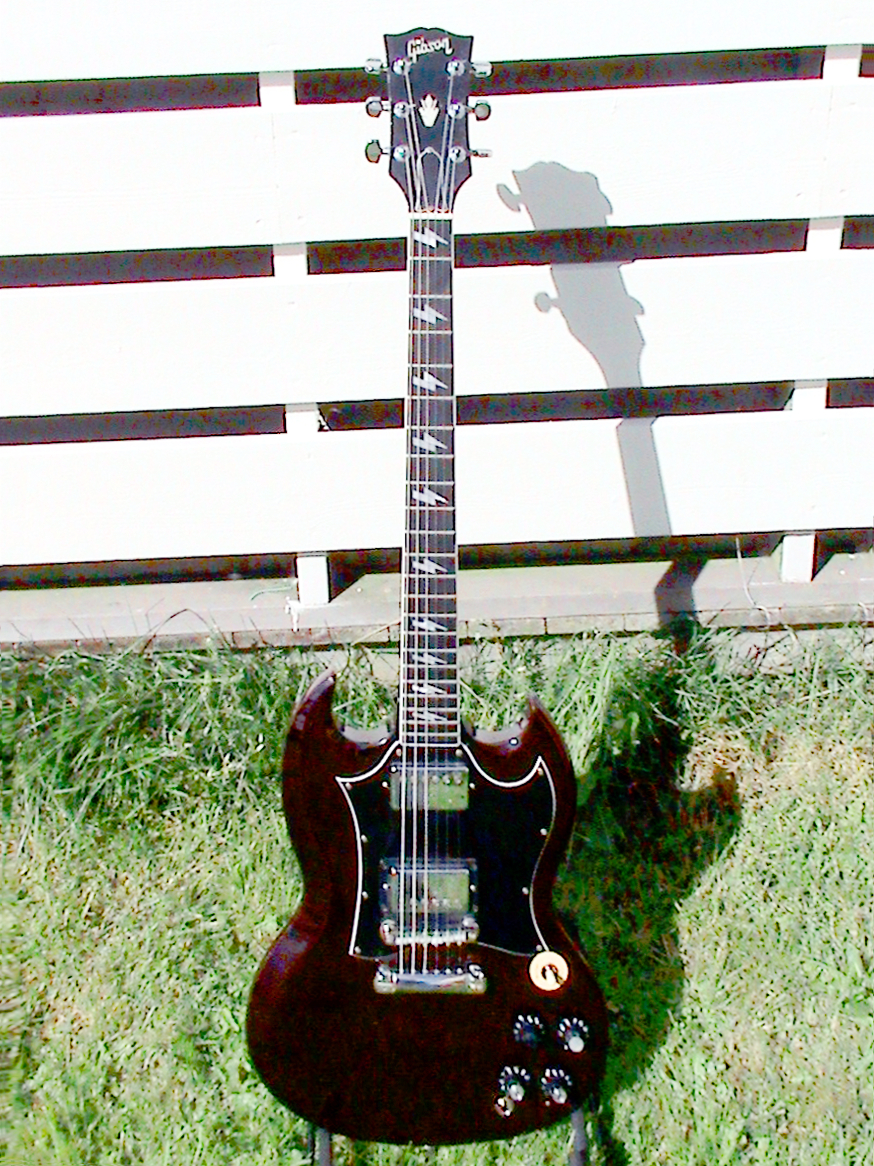 Gibson Sg Mod: try to correct lens distortion, slightly brighten